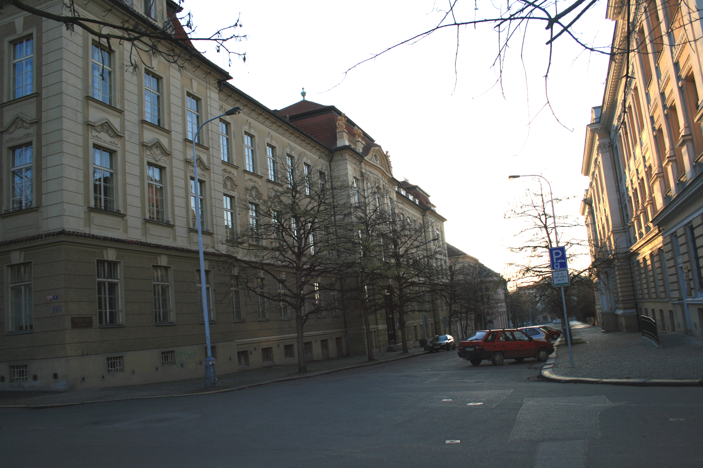 Building of geology, Faculty of Natural Sciences, Charles University, Albertov, Prague